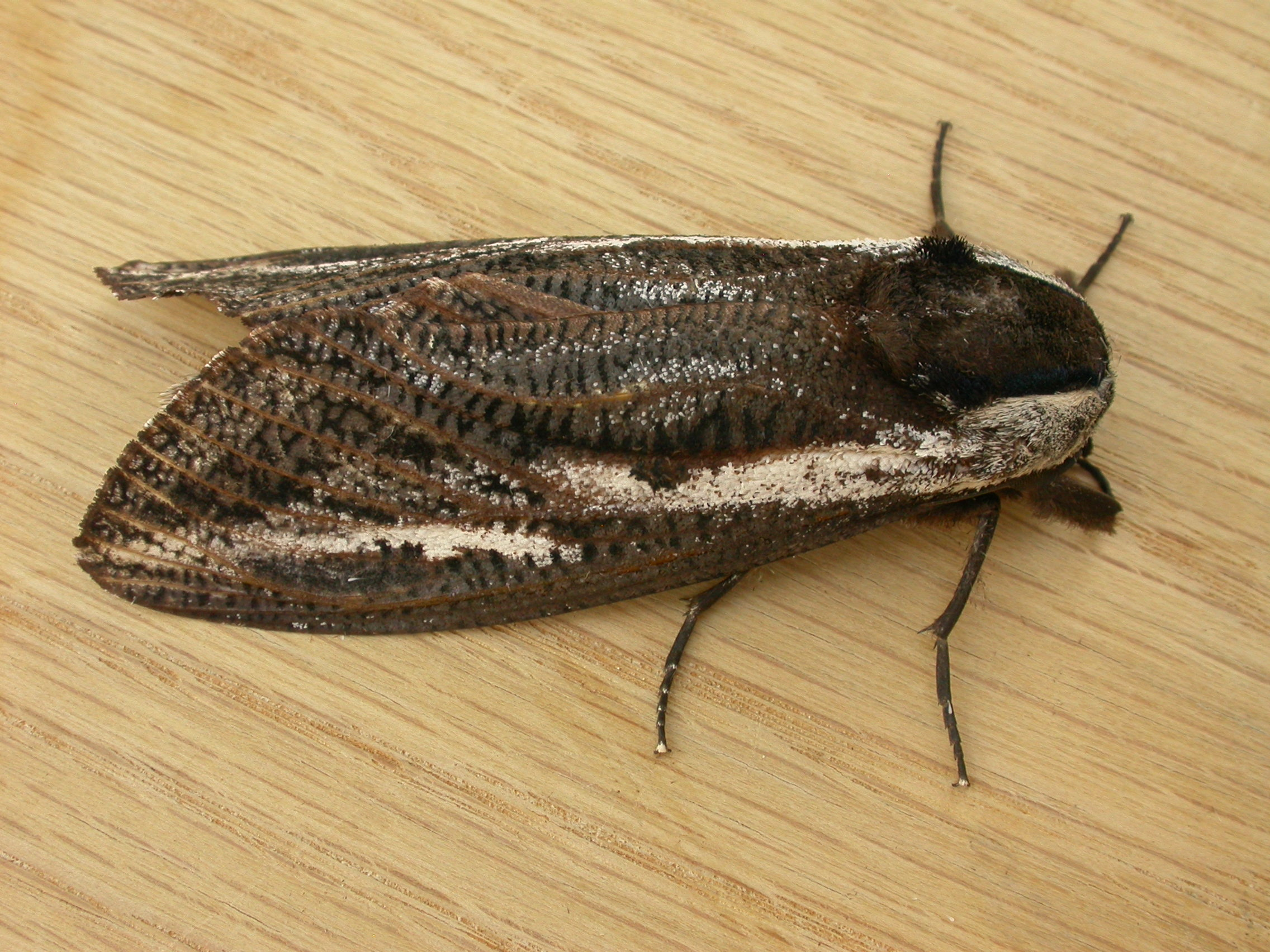 Endoxyla leucomochla (Turner, 1915), to MV light, Aranda, ACT, 30/31 January 2009